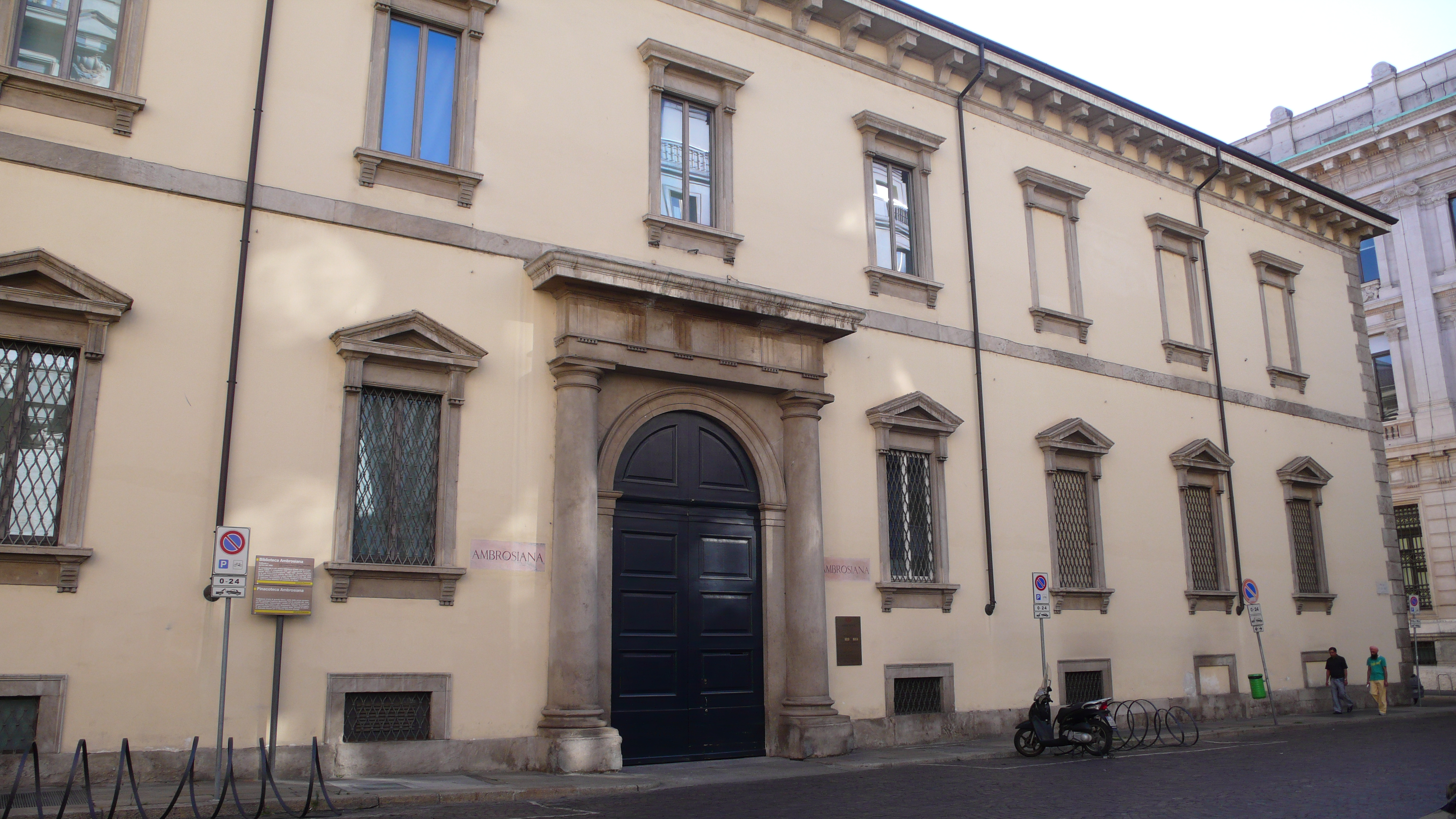 Milan, Italy. Detail from the façade of the palace by Fabio Mangone), housing both the Pinacoteca Ambrosiana (Ambrosian Gallery) and the Biblioteca Ambrosiana (Ambrosian Library). They are privately owned (by the Milanese Catholic Church), but may be visited.